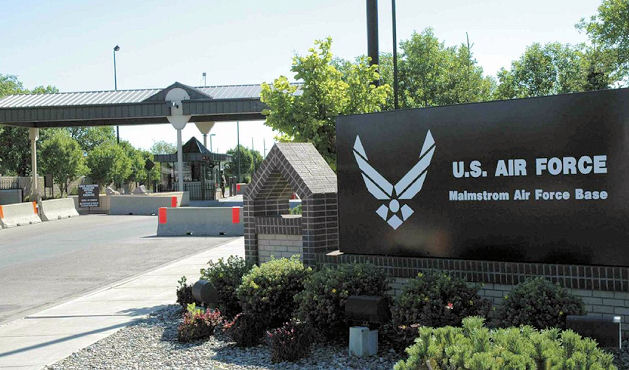 Photo of main gate at Malmstrom Air Force Base, Montana